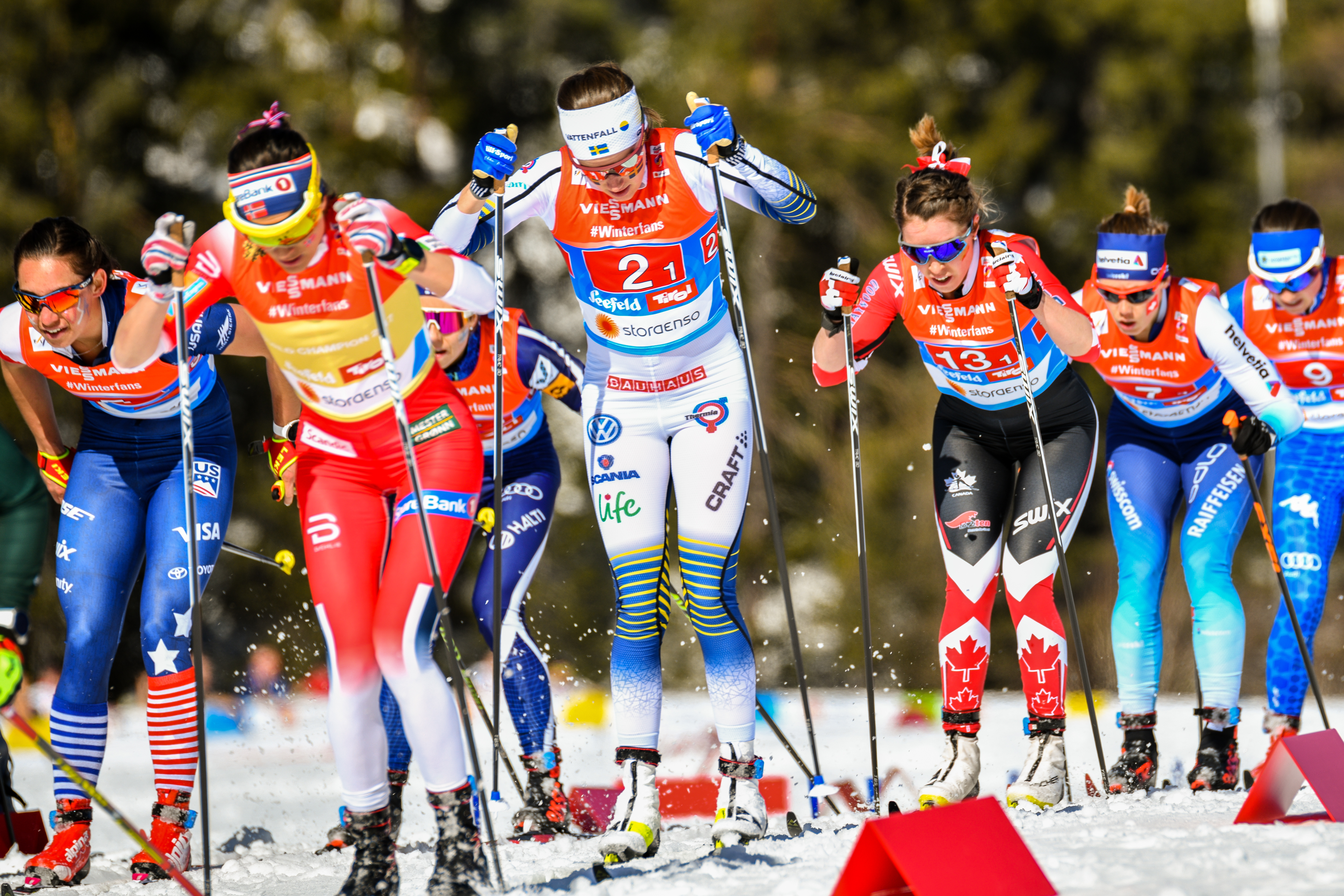 FIS Nordic World Ski Championships Seefeld 2019 - Ladies 4x5km Relay Classic/Free. Picture shows Julia Kern (USA), Heidi Weng (NOR), Laura Mononen (FIN), Ebba Andersson (SWE), Katherine Stewart-Jones (CAN), Laurien van der Graaf (SUI).